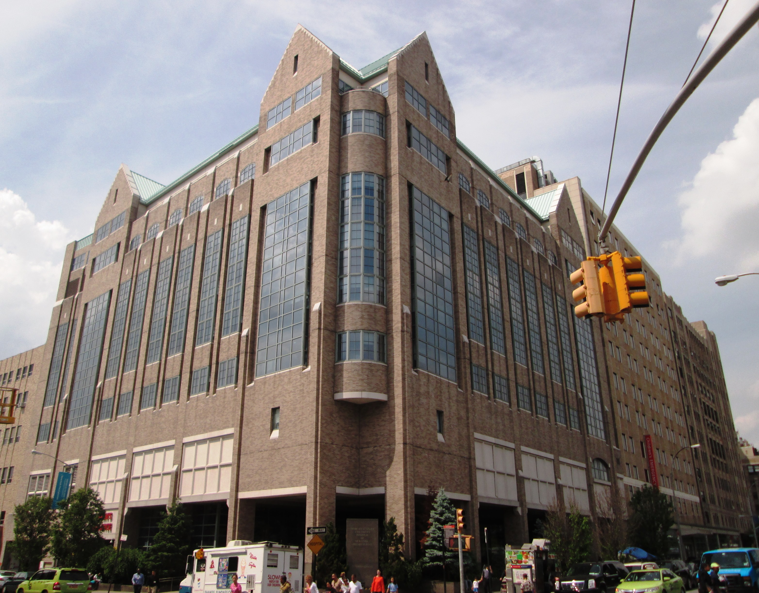 Morgan Stanley Children's Hospital of New York-Presbyterian (CHONY) is a leading pediatric hospital in New York City. Located at 3939 Broadway between West 165th and 166th Streets in the Washington Heights neighborhood of Manhattan, New York City, it is a part of New York-Presbyterian Hospital and the Columbia University Medical Center. Although the hospital traces its roots to the establishment of Columbia University's – then King's College – Department of Pediatrics in 1767, it was officially founded as Babies' Hospital in 1887.